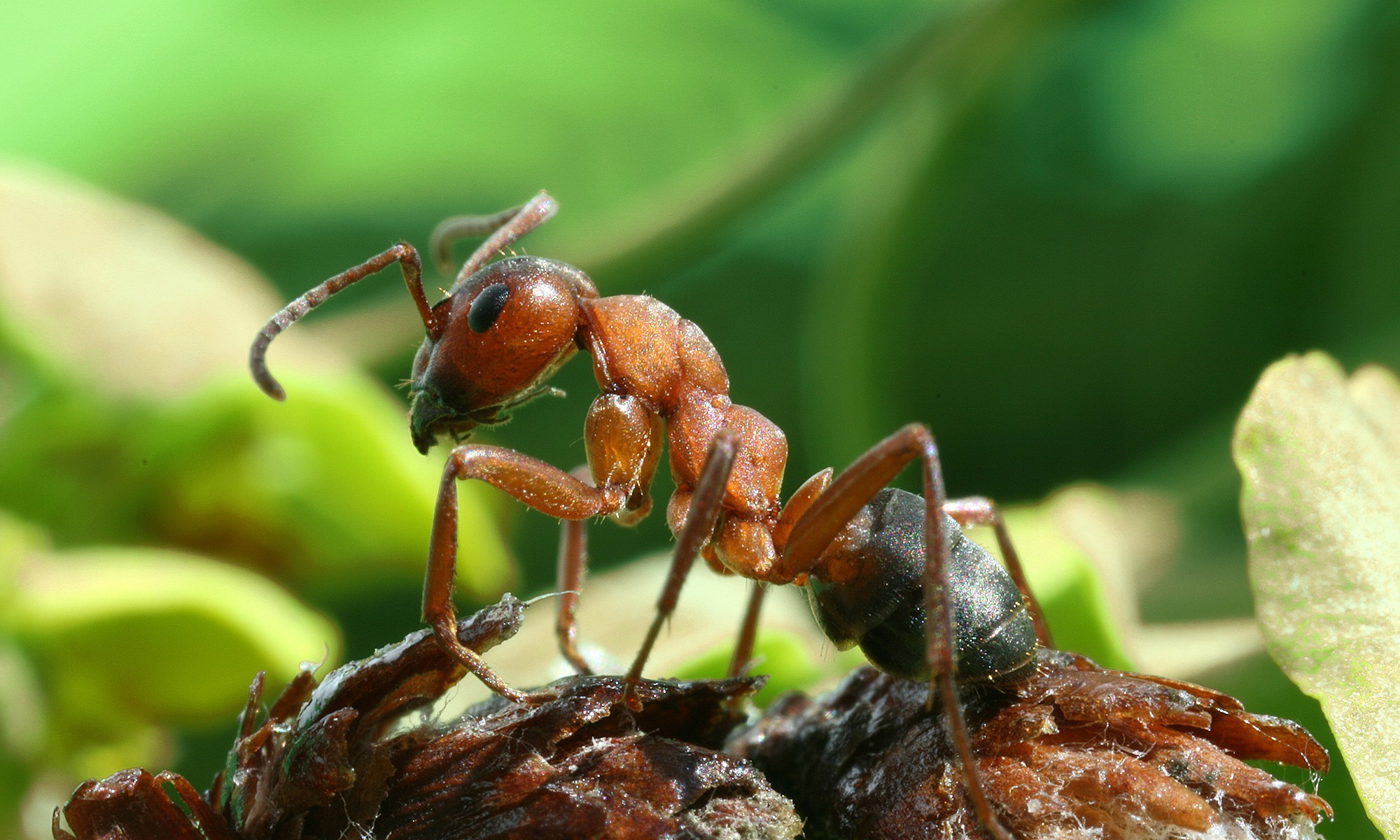 mirrored version of Commons Image:A Formica rufa sideview.jpg